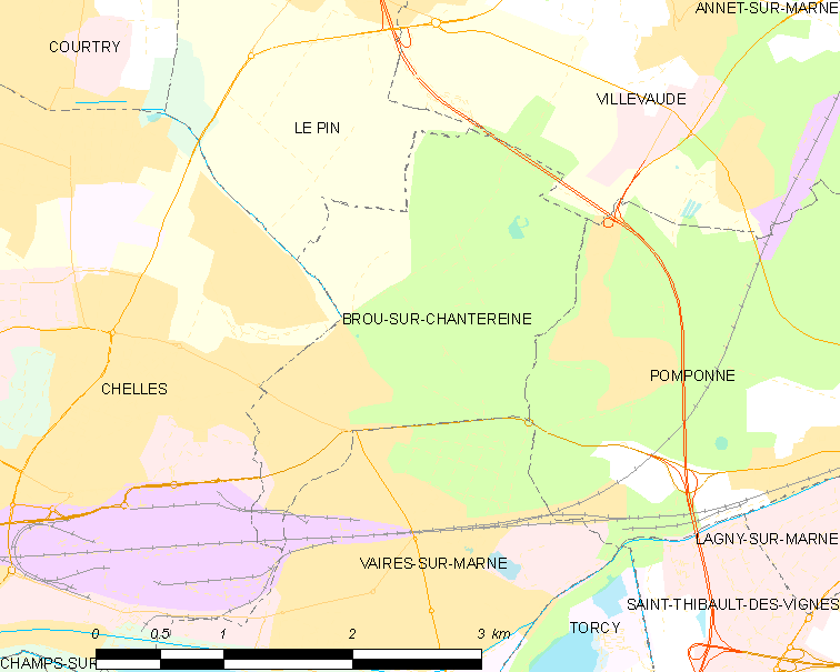 Map of French municipality Brou-sur-Chantereine